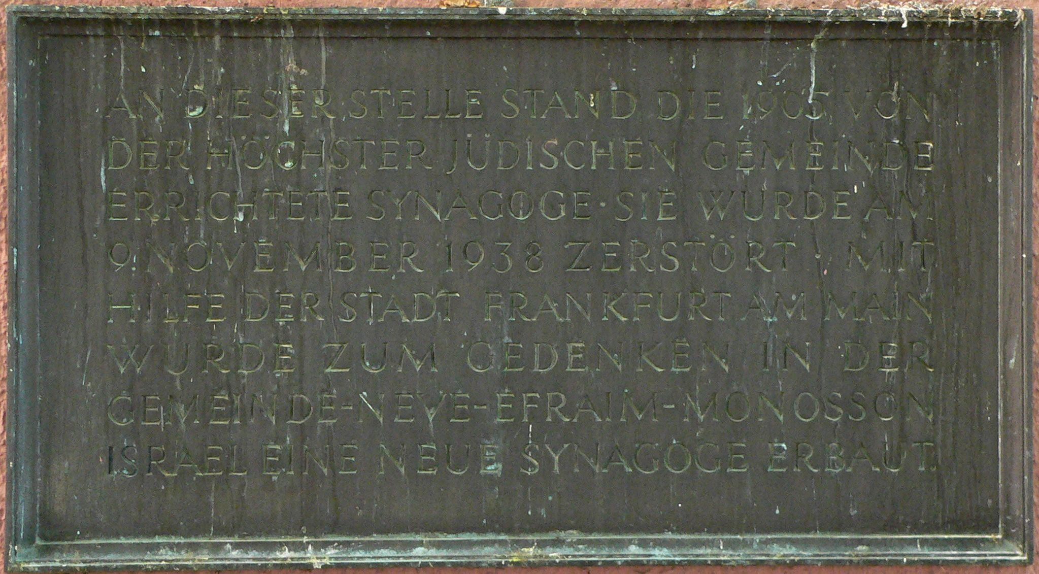 Memorial for the former synagogue (1905-1938) in Höchst (a locality of Frankfurt upon Main), recalling its construction, destruction and the city's donation of DM 20,000 for the construction of the synagogue in Neve (Ephraim) Monosson.